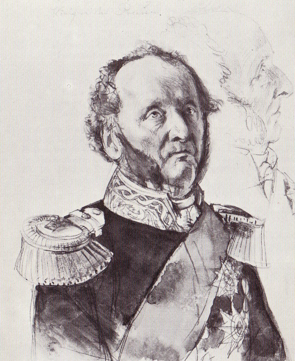 Friedrich von Zander (1791-1868), Chancellor of the Kingdom of Prussia